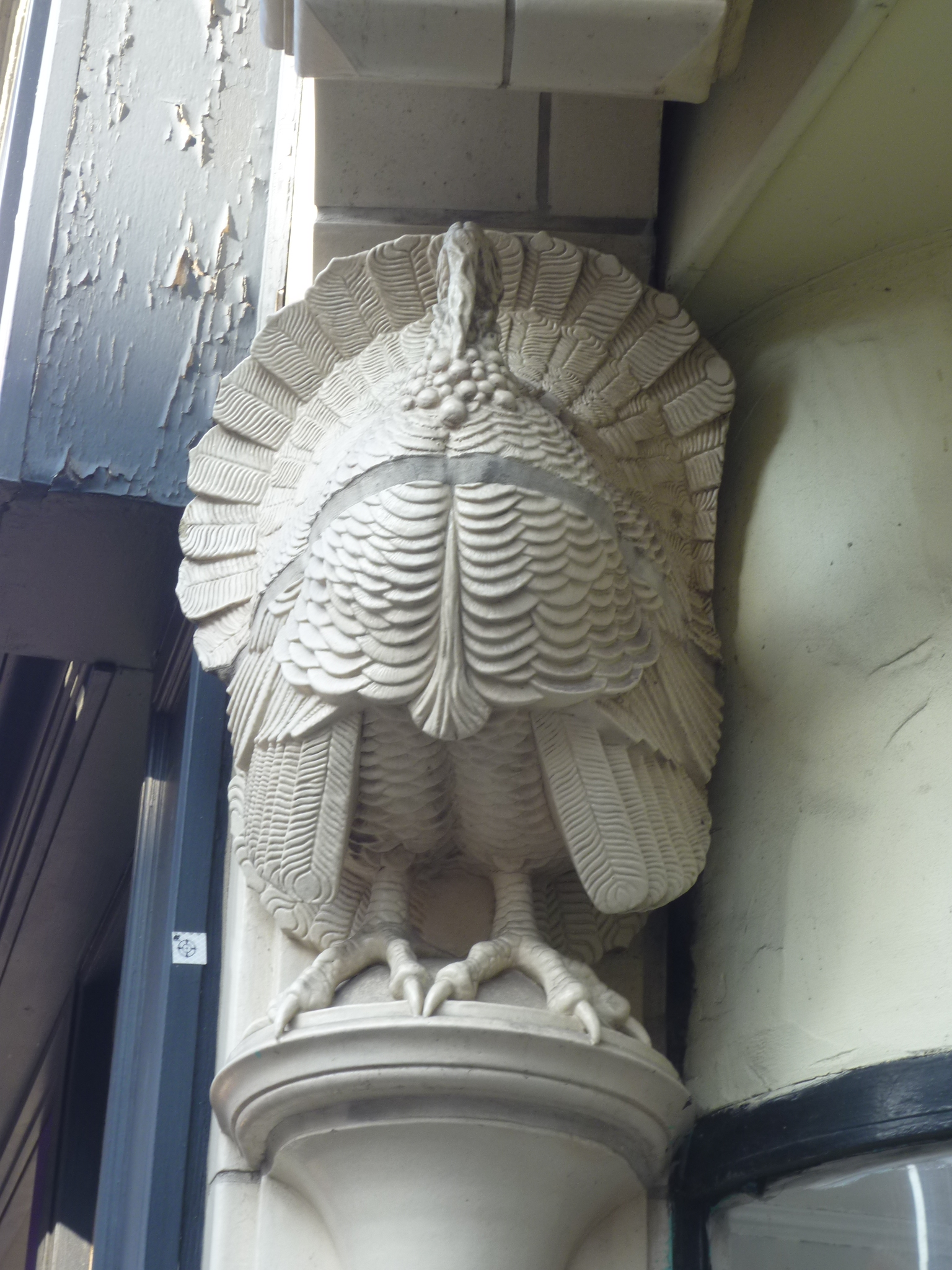 Built in 1901 and designed by Arthur Wakerly, The Turkey Cafe is one of Leicesters best examples of Art Nouveau architecture.